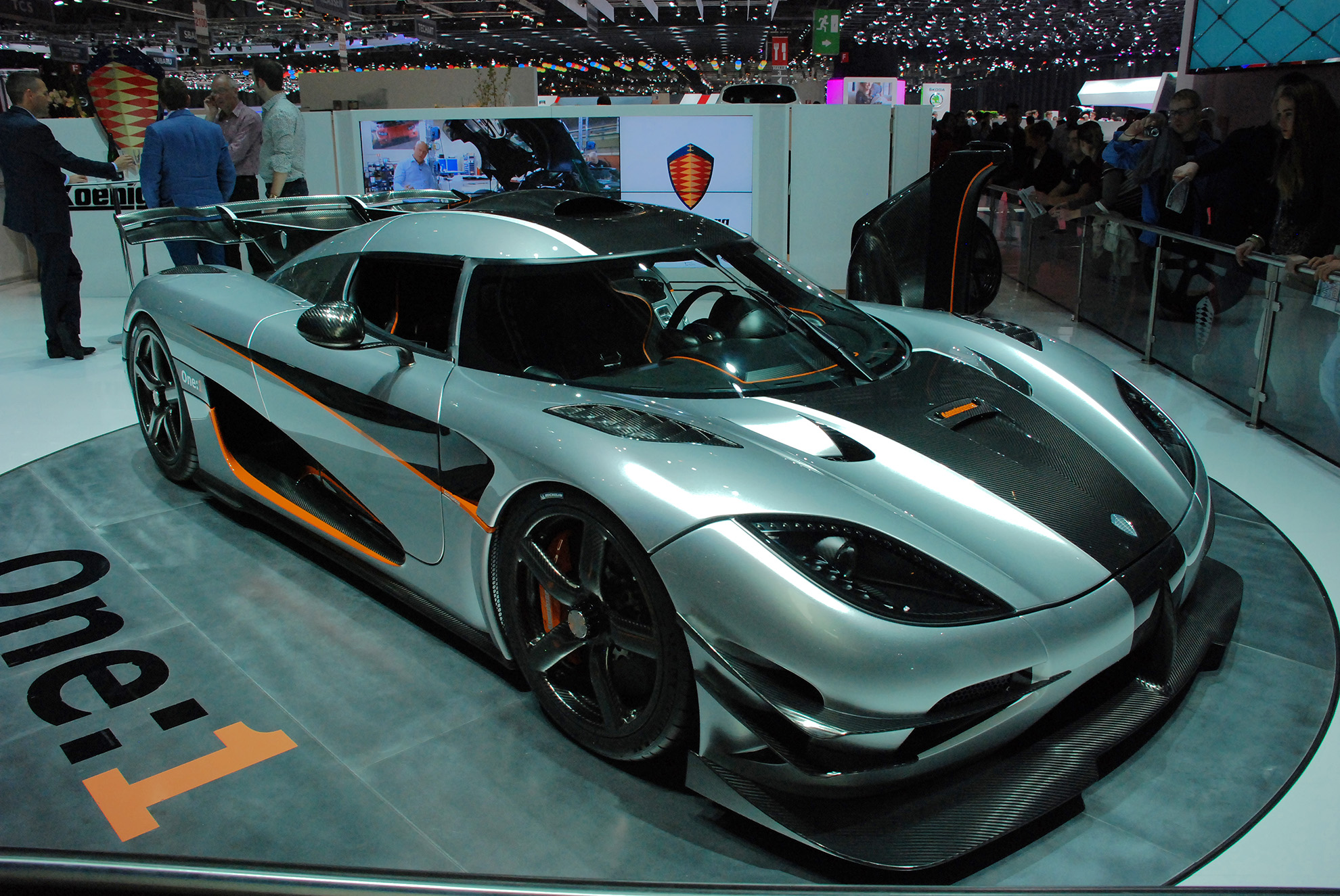 The Koenigsegg One:1 at the 2014 Geneva motorshow.